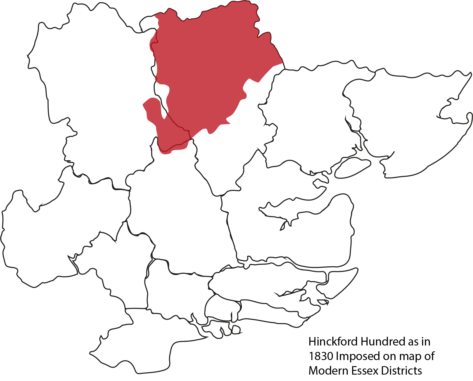 Map of Essex and current District borders, with Hinckford imposed in red (as of 1830)